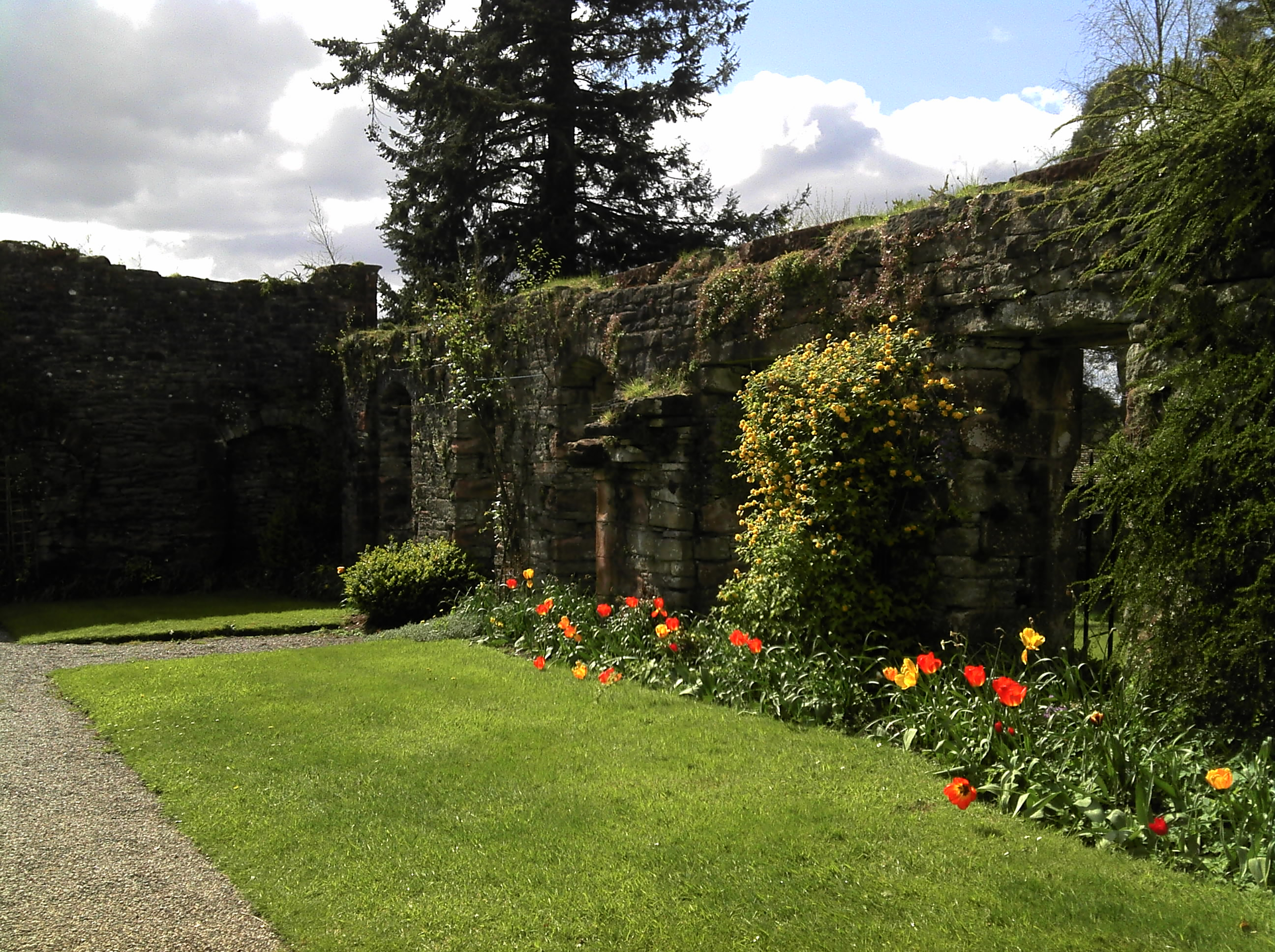 The interior of the courtyard formed by the ruins of Buchanan Auld House, located in Stirlingshire, Scotland.